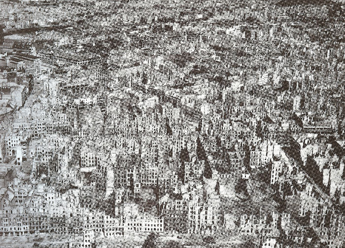 Berlin bombed by RAF, Germany, 1945